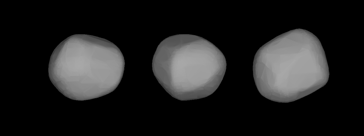 A three-dimensional model of 423 Diotima that was computed using light curve inversion techniques.